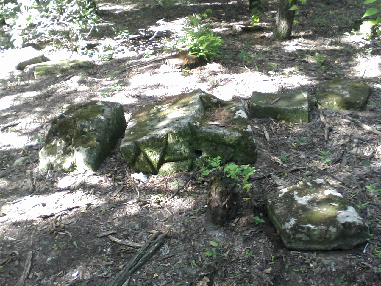 old cemetery th18 District Budapest, Ipacsfa - Közdűlő street